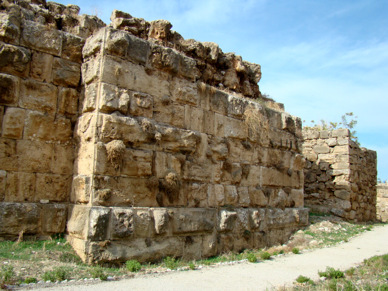 Achaemenid Walls of Byblos Fortress